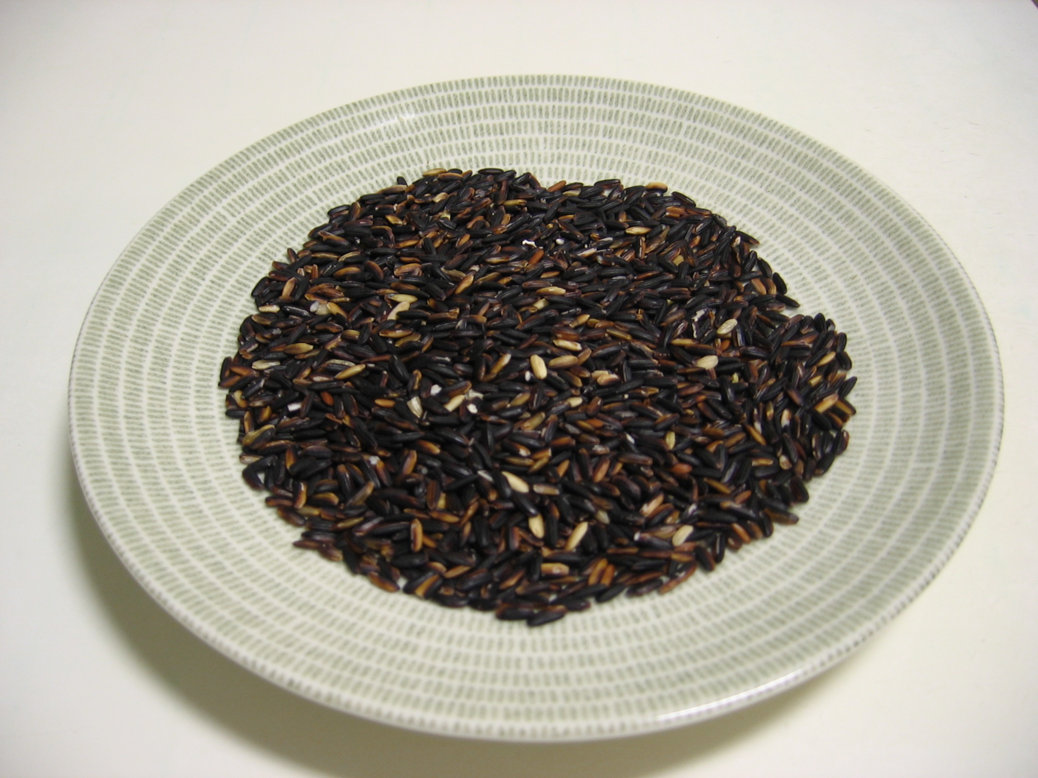 Raw black rice on a Arabia 24H avec plate.